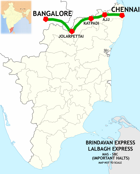 Brindavan Express and Lalbagh Express (MAS - SBC) Route map